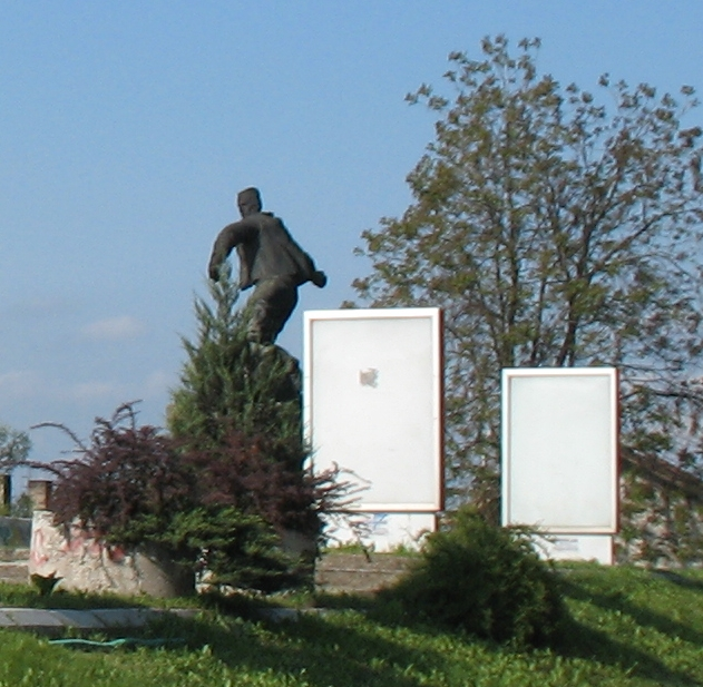 Monument to Yugoslav Partisans,representing common man throwing bomb in Ljig,Serbia.